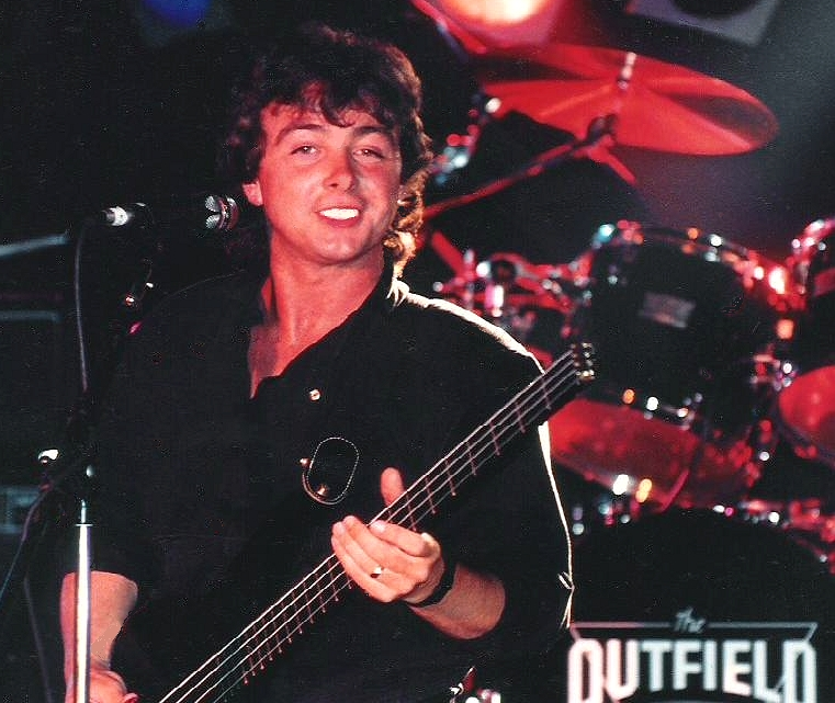 Tony Lewis, lead singer of the band The Outfield at the at The Stone Balloon in Newark, DE Photo taken with a Canon A-1 Camera. No other photography details available.